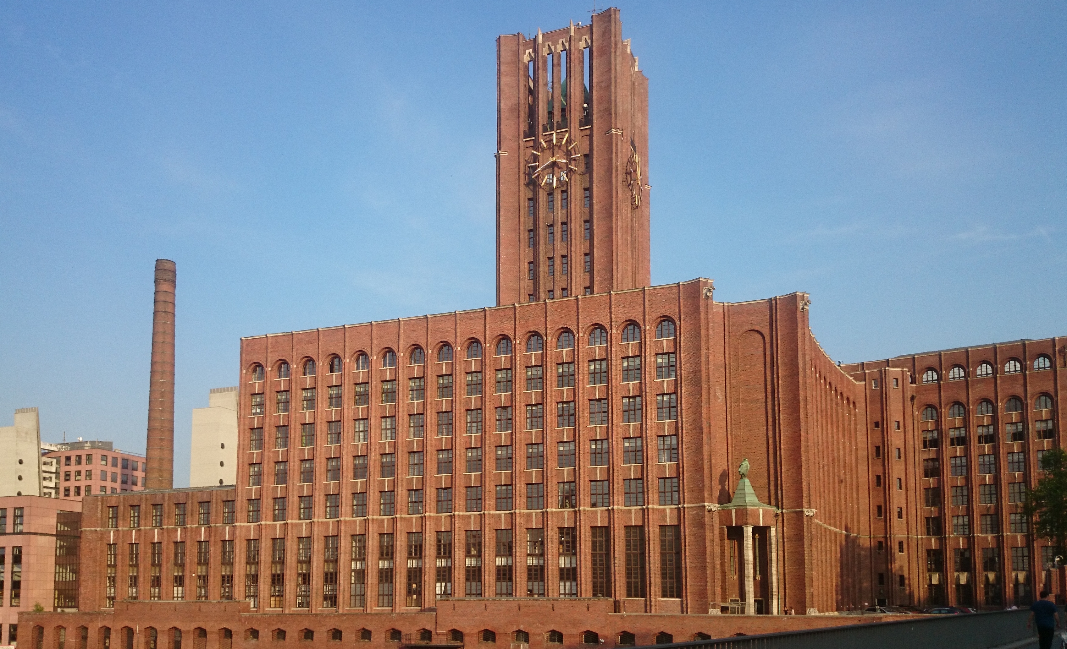 Ullstein building